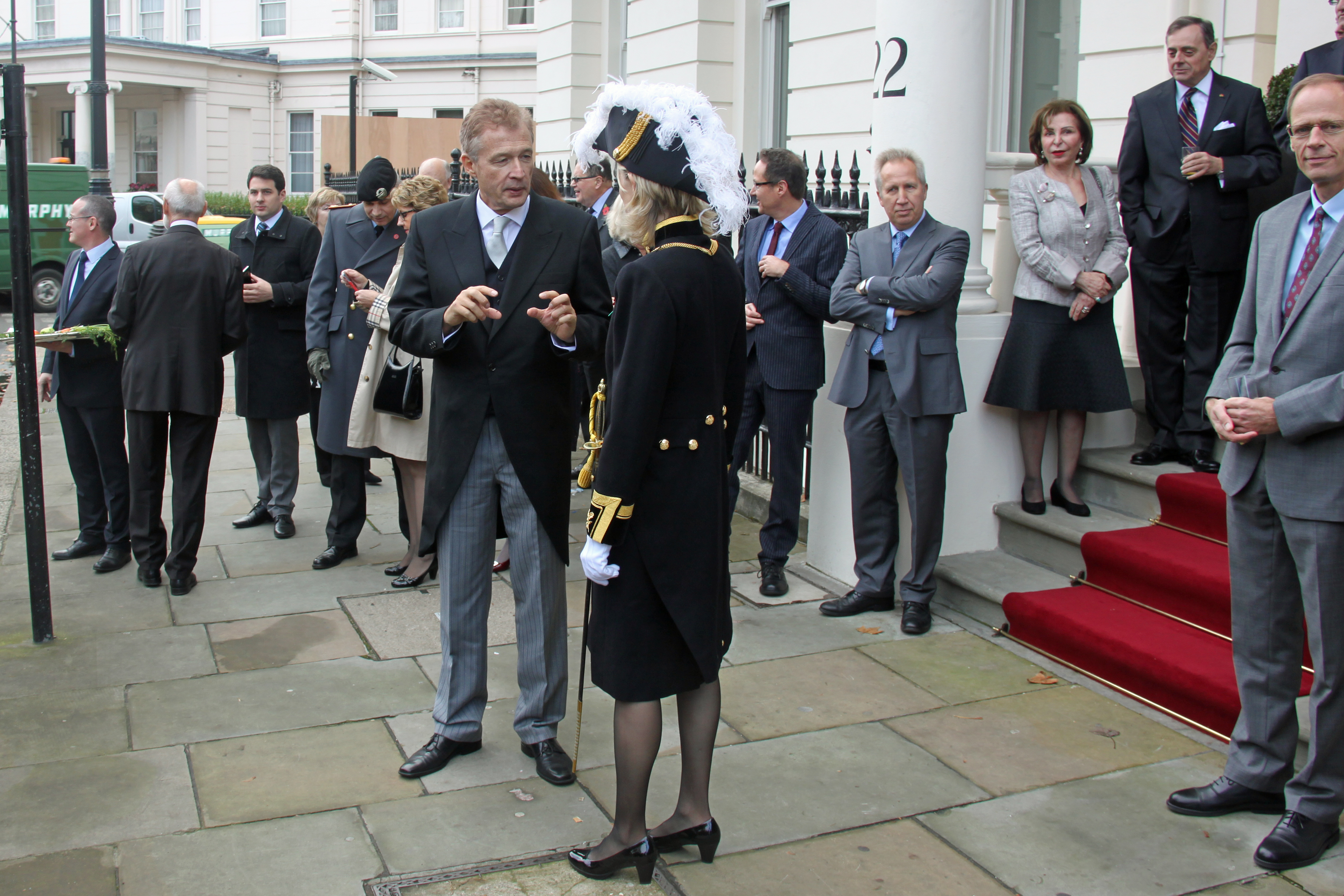 Peter Ammon, Ambassador to the Court of St. James's, and Anna Clunes, Vice-Marshal of the Diplomatic Corps, were back to the Embassy of Germany in London on November 5, 2014.